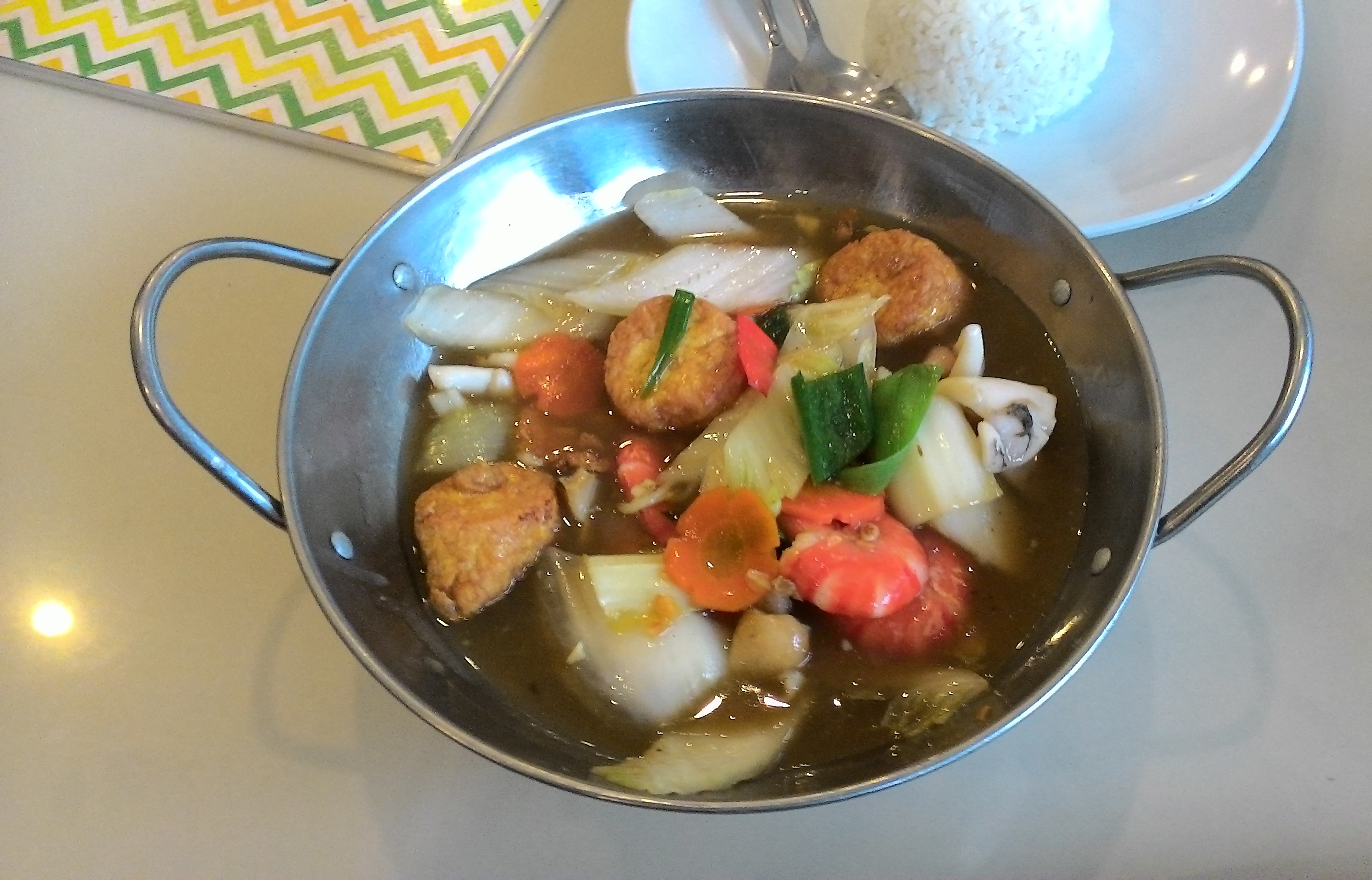 Sapo Tahu is Chinese Indonesian tofu dish, with vegetables, meat or seafood. Served in Waroenk Kito restaurant in Grogol area, West Jakarta, Indonesia.